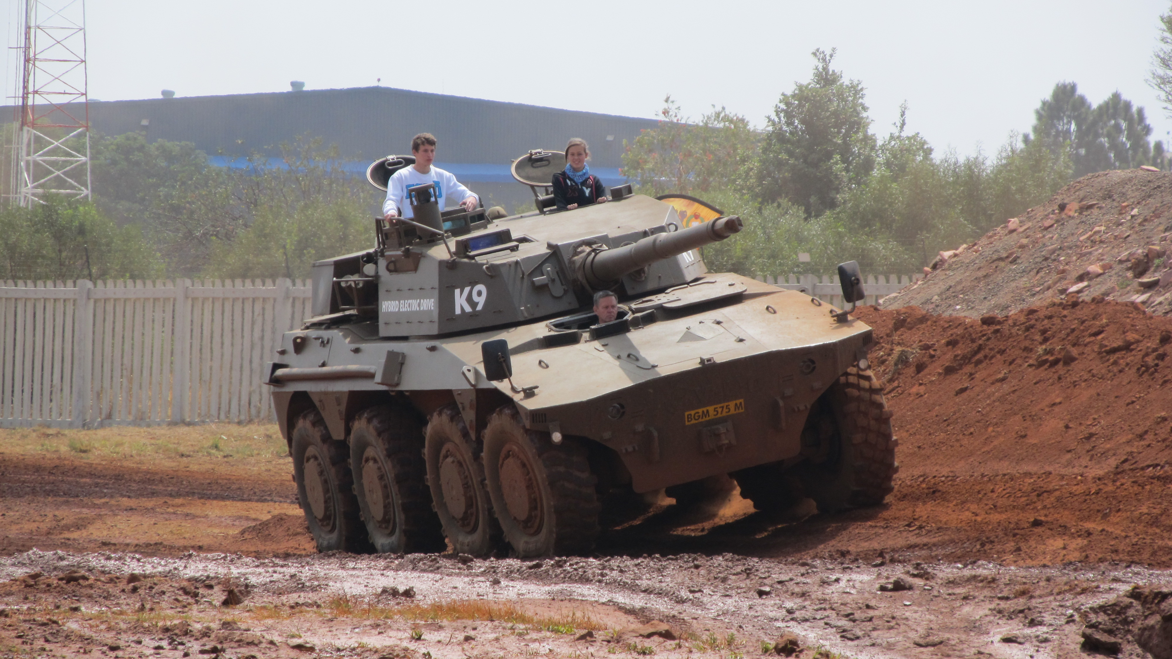 A Rooikat K9 with hybrid electric vehicle at AAD2014